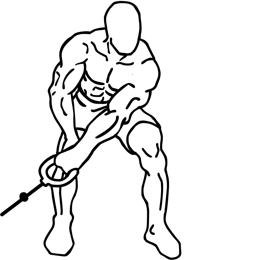 an exercise of shoulders